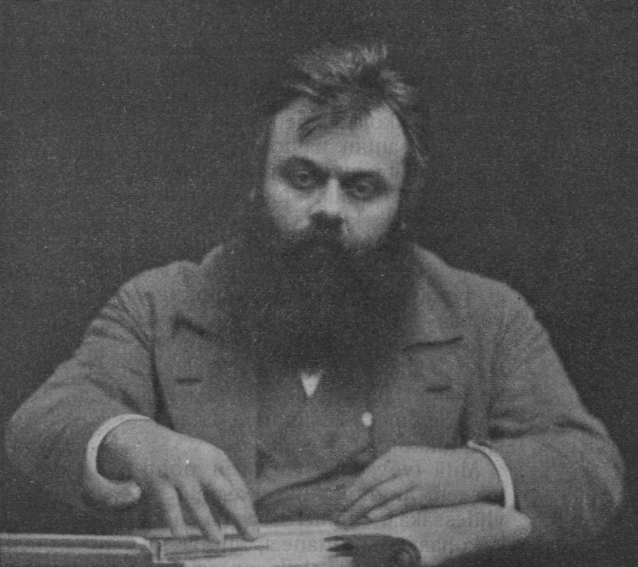 The Finnish singer and kantele player Pasi Jääskeläinen (1869-1920) with his kantele